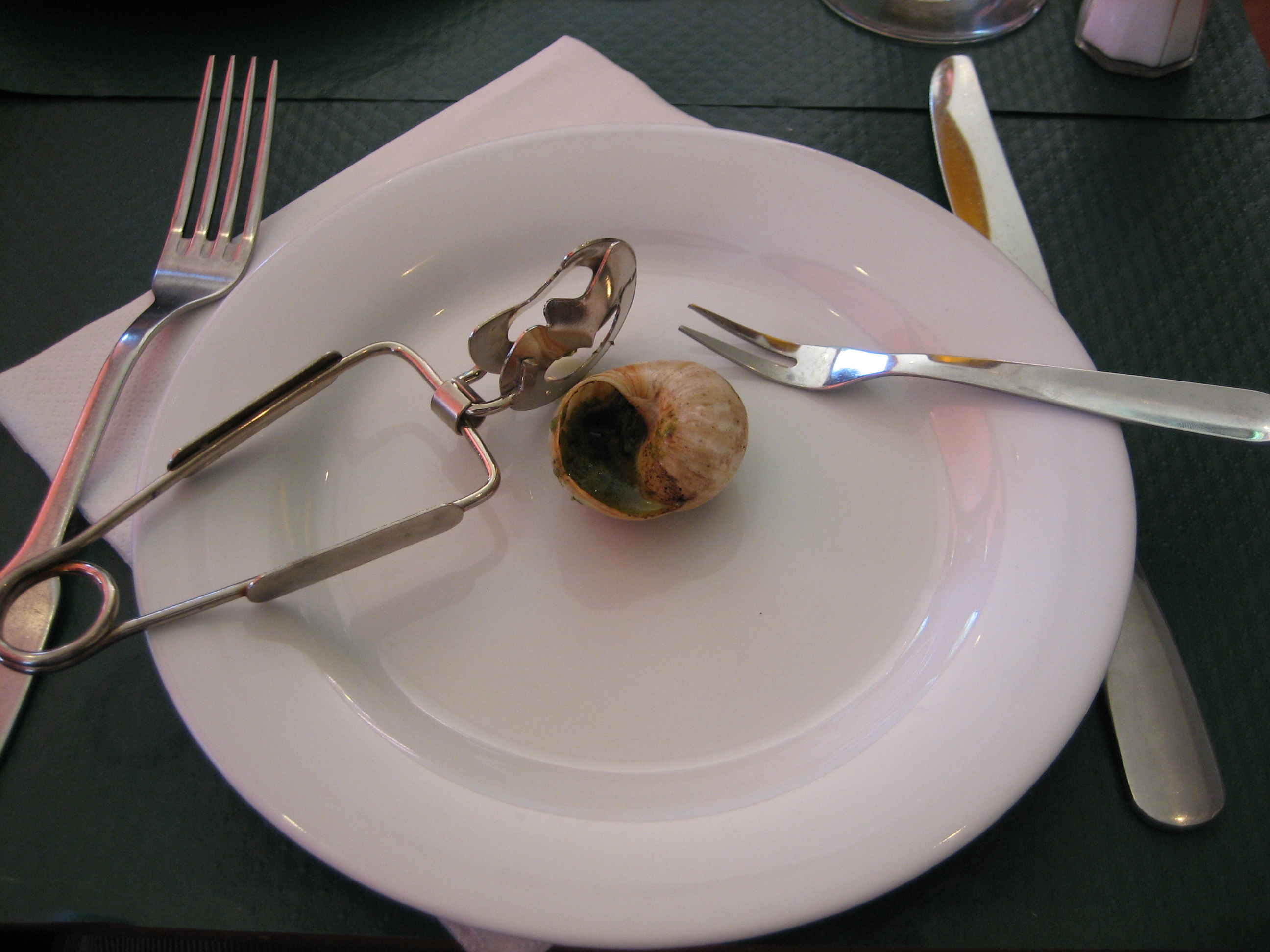 Taken by me in Versailles, France, September 2006. A single snail and the tools needed to eat it.